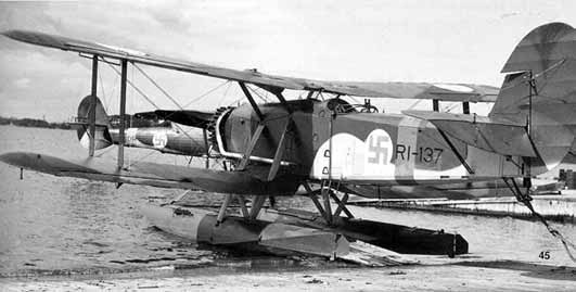 Blackburn Ripon RI-137 of Finnish Air Force.